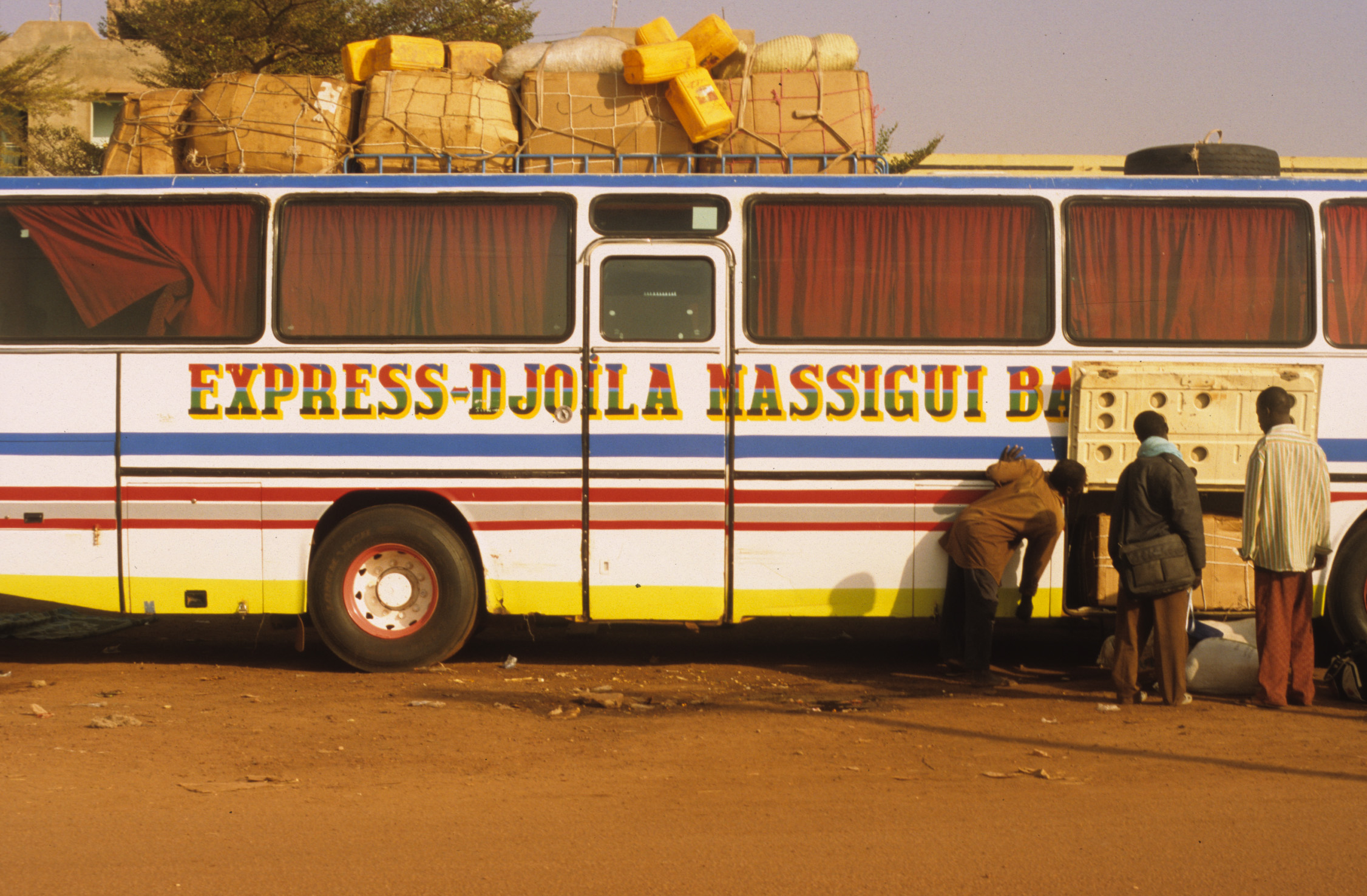 This is an image with the theme "Africa on the Move or Transport" from: Mali